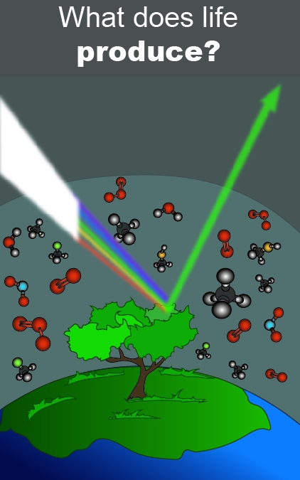 Life can leave 'fingerprints' of its presence in the atmosphere and on the surface of a planet. These potential signs of life, or biosignatures, can be detected with telescopes. See story at